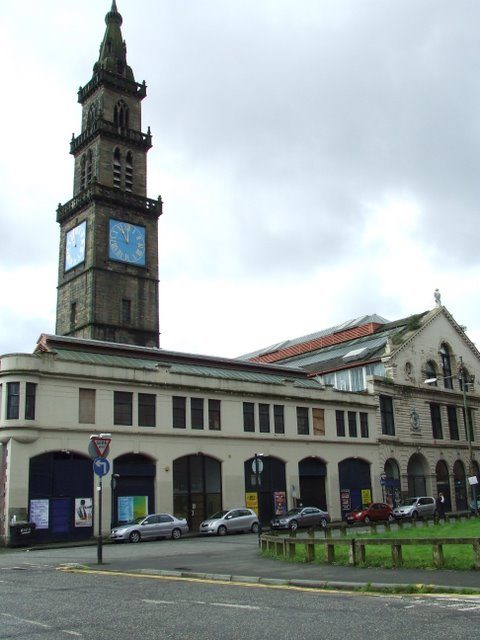 The Briggait Centre. Former fish market which served as an indoor market in the 1980s. Now appears to be disused. See the Glasgow Coat of Arms on the front of the building here 938225.